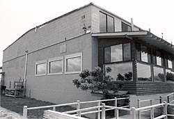 US Naval Ordnance Testing Facility Assembly Building, Topsail Beach (Pender County, North Carolina) Photo from the National Register of Historic Places collection This image or media file contains material based on a work of a National Park Service employee, created as part of that person's official duties. As a work of the U.S. federal government, such work is in the public domain. See the NPS website and NPS copyright policy for more information. Object location34° 22′ 02″ N, 77° 37′ 49″ W